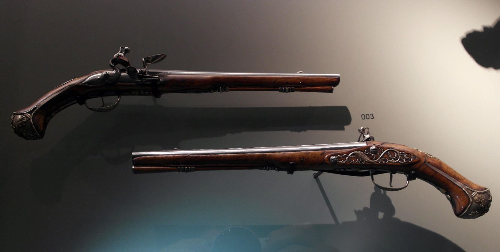 Liège, Belgium, weapons collection of the Musée des armes in the Grand Curtius.